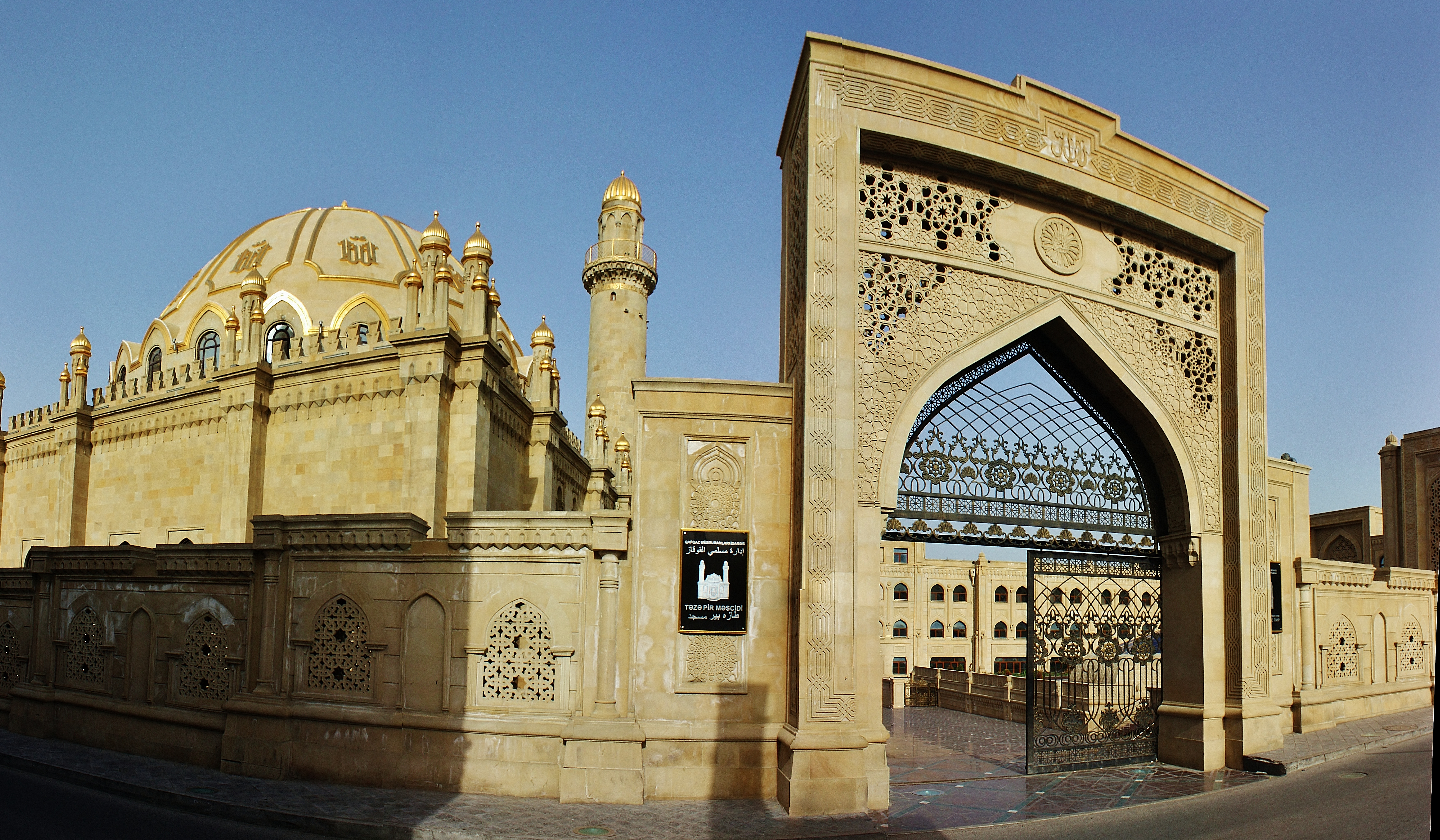 Taza Pir mosque in Baku